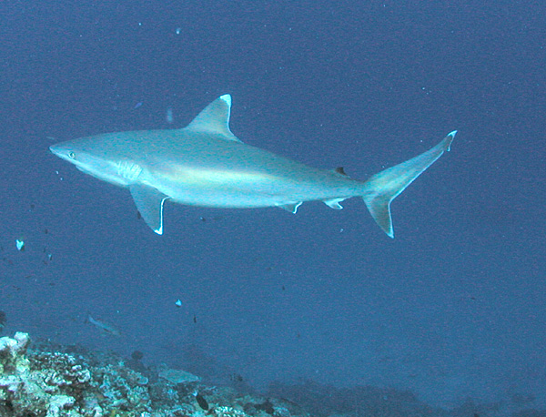 Silvertip Shark, New Hanover Island, Papua New Guinea. Image taken by Clark Anderson/Aquaimages.